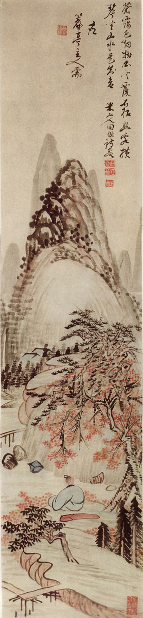 Quiet_Man_and_Laid_Harp_by_Okada_beisanjin_Age_of_70,color on paper,hanging scroll 幽客横琴図 70歳の作 紙本着色